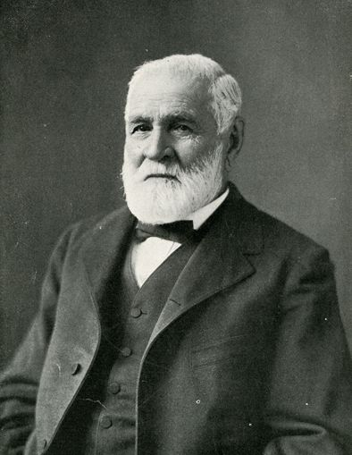 Photo of Captain Joseph LaBarge